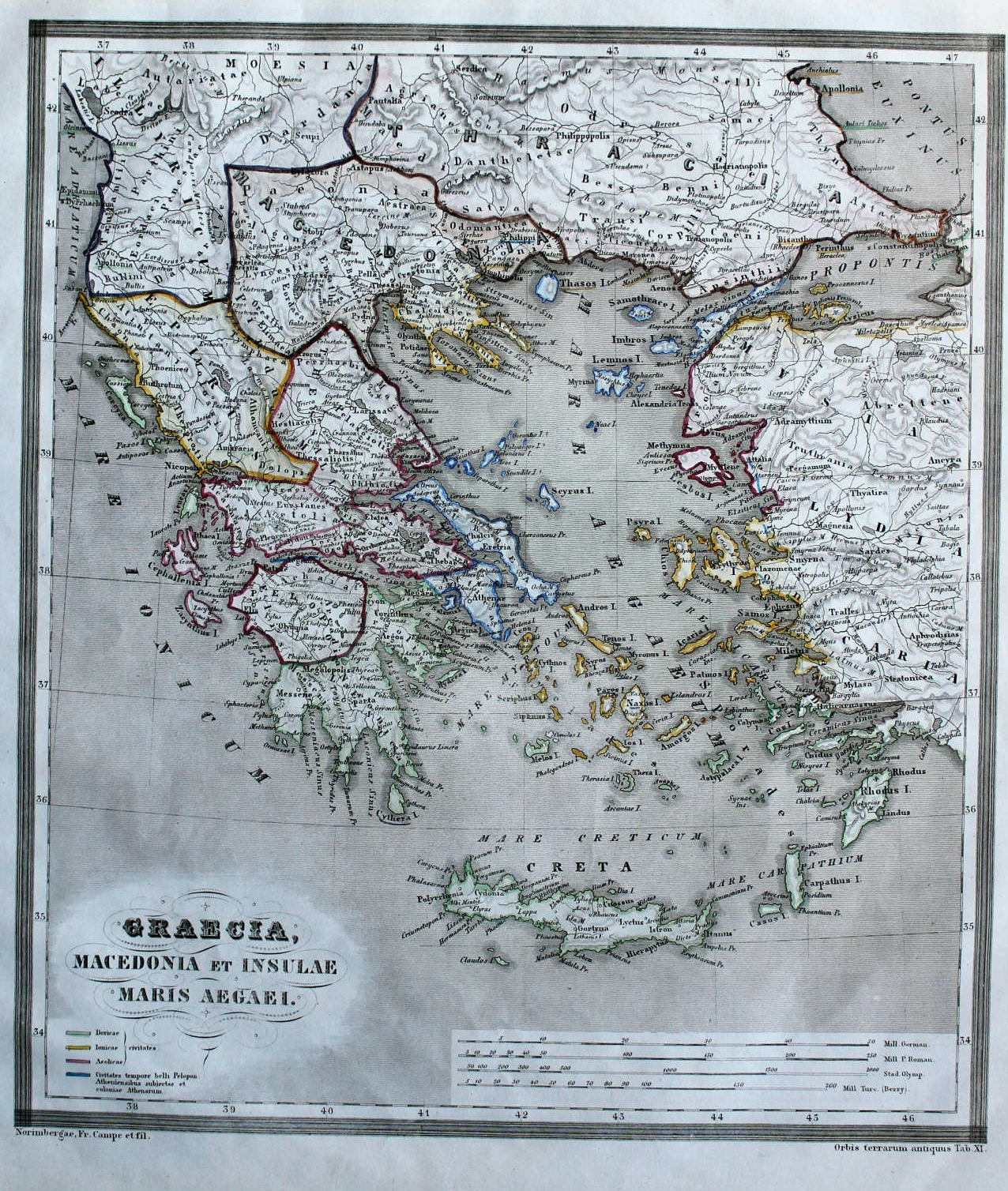 Greece, Macedon and the Aegean from Orgis Terrarum Antiquus 1861